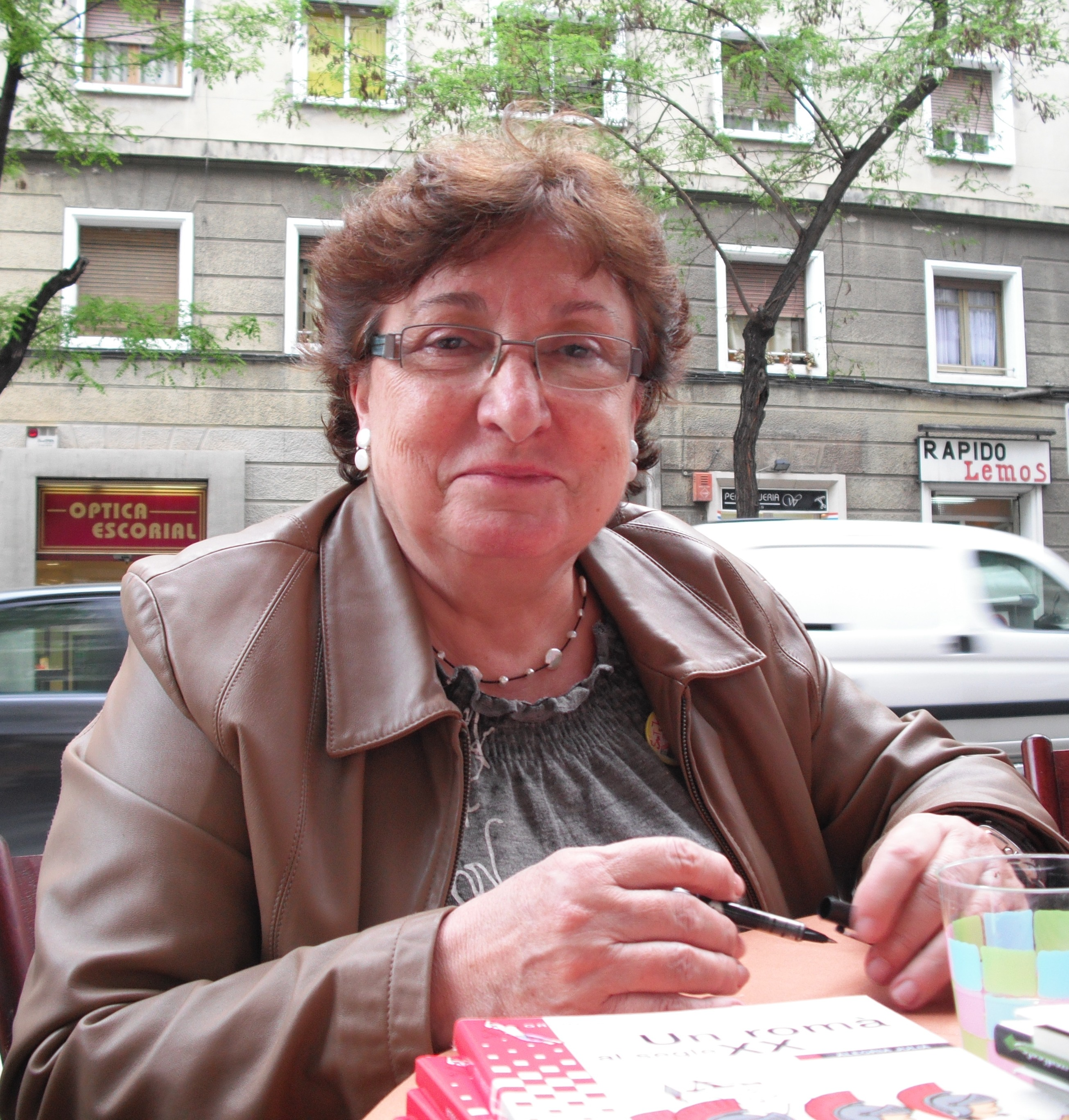 Alegria Julià in Gràcia, Barcelona, Catalonia, during the 'Diada de Sant Jordi' (23rd April 2010).